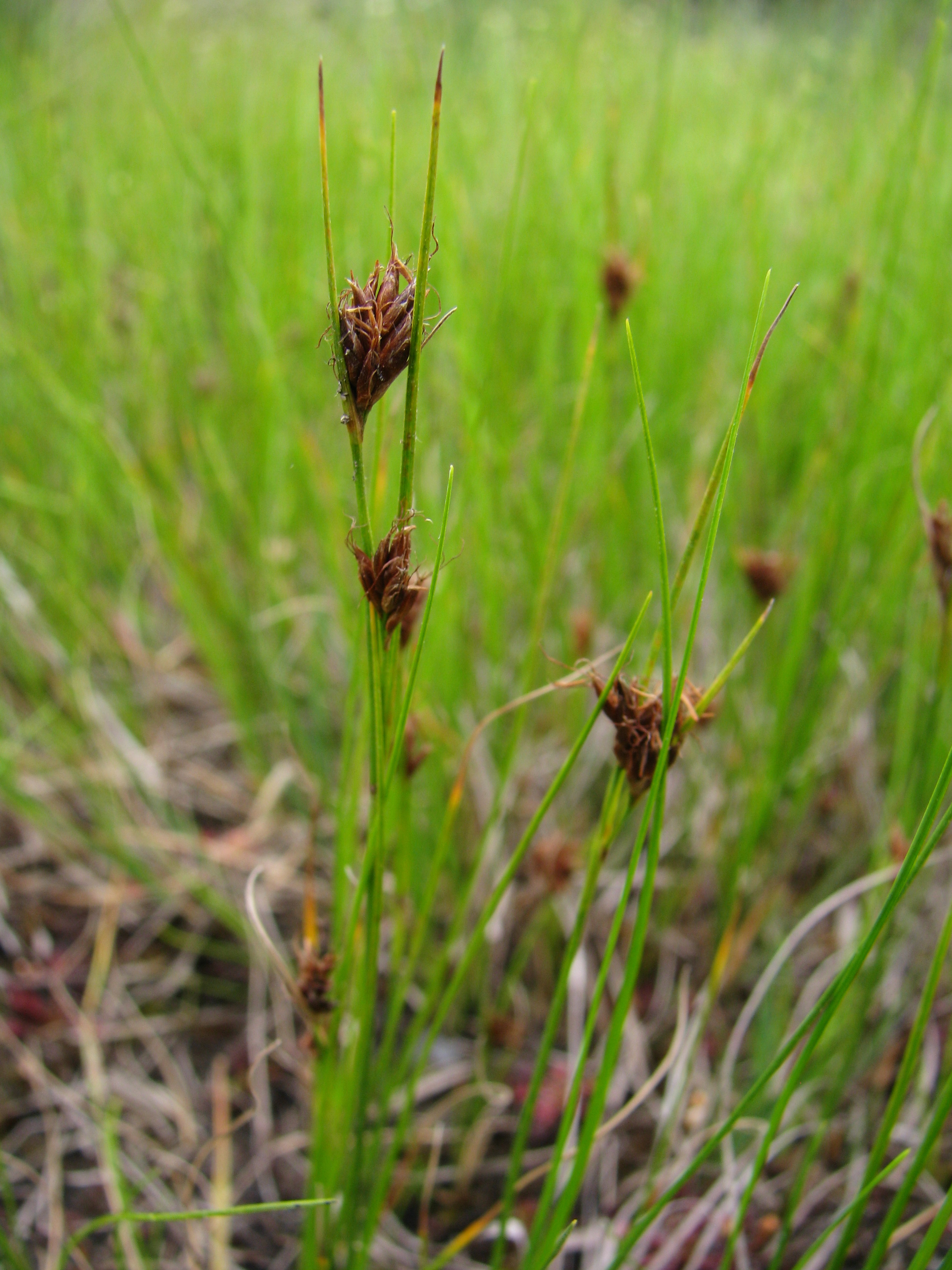 Rhynchospora fusca